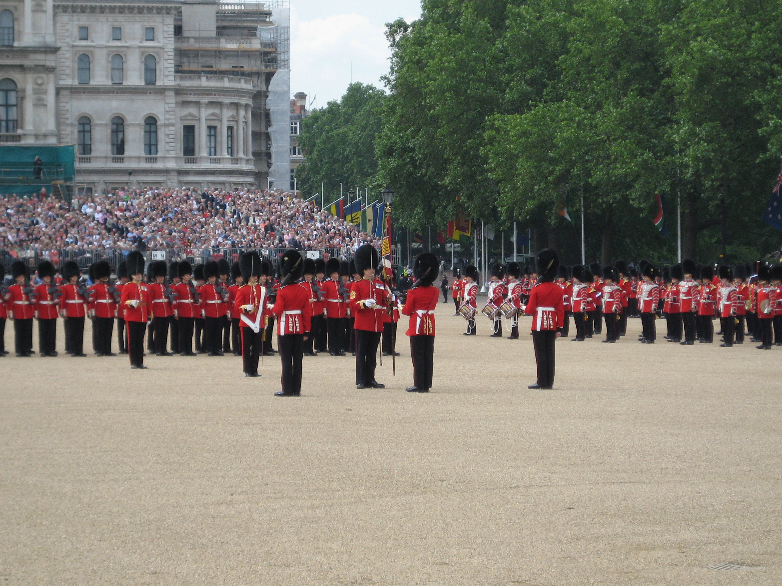 The Colours are handed over to the Warrant Officer who has his sword drawn.